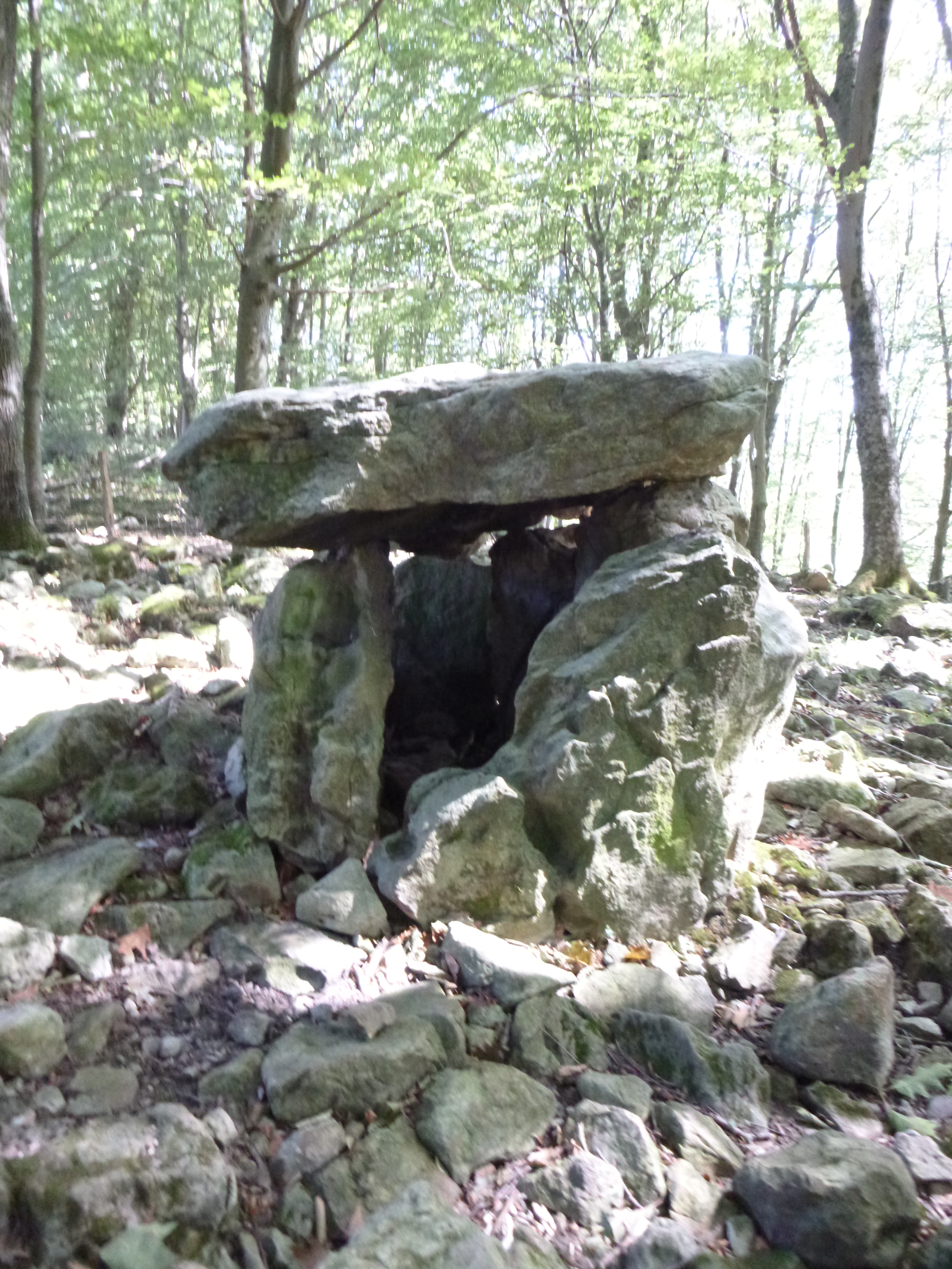 Aitzetako txabala dolmen